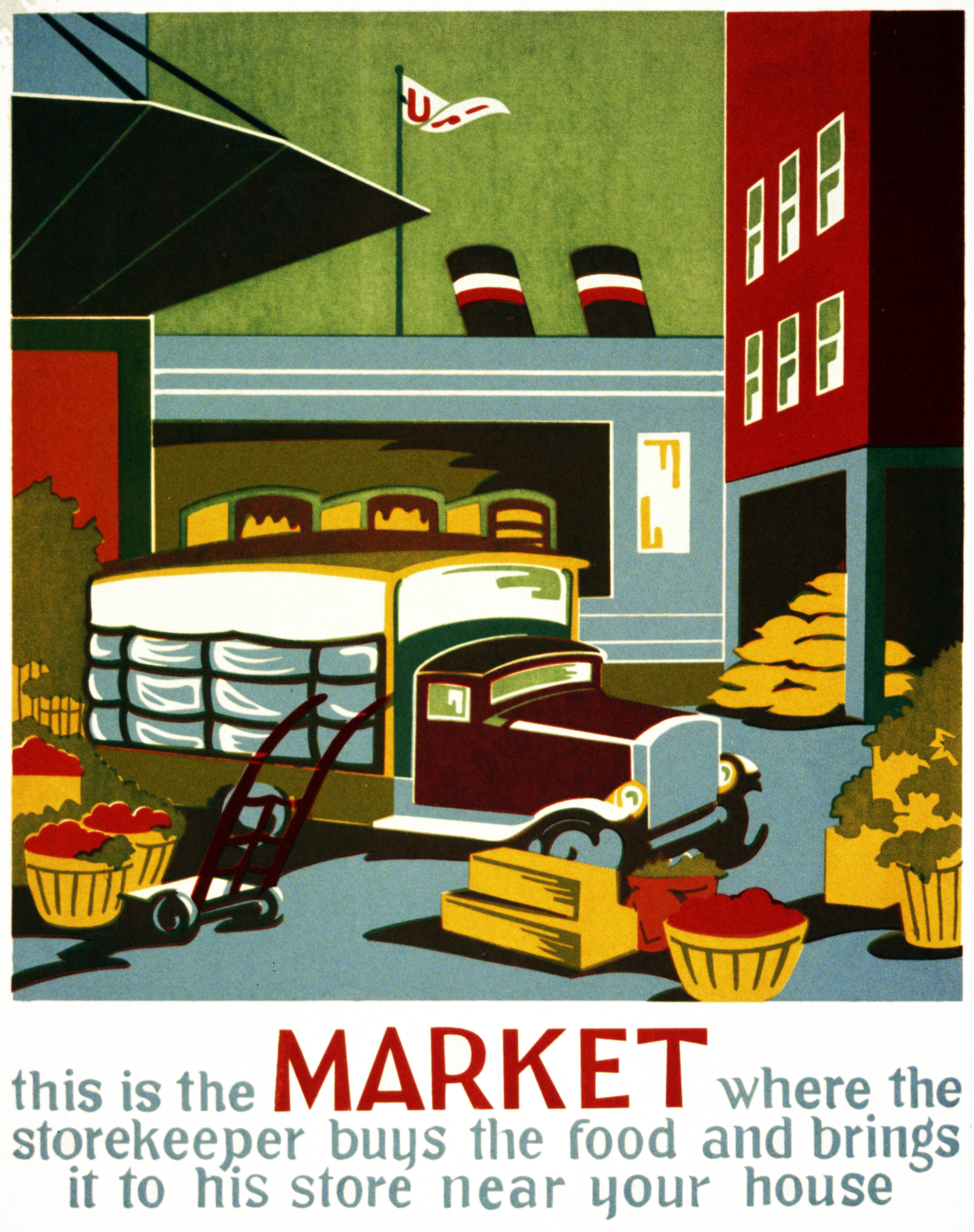 Poster about wholesale food markets. Caption reads: "This is the market where the storekeeper buys the food and brings it to his store near your house."